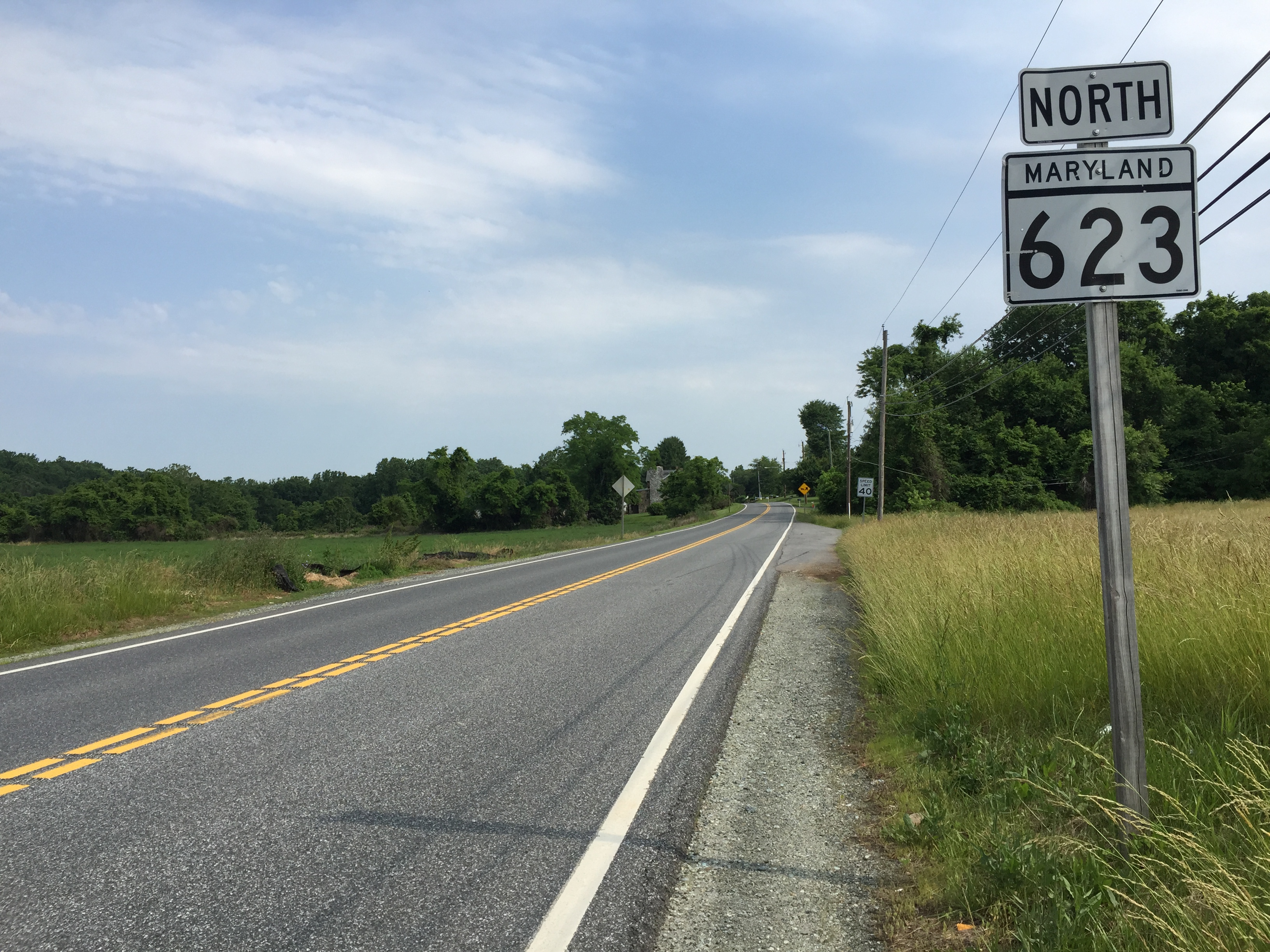 View north along Maryland State Route 623 (Flintville Road) at Castleton Road northwest of Berkley in Harford County, Maryland